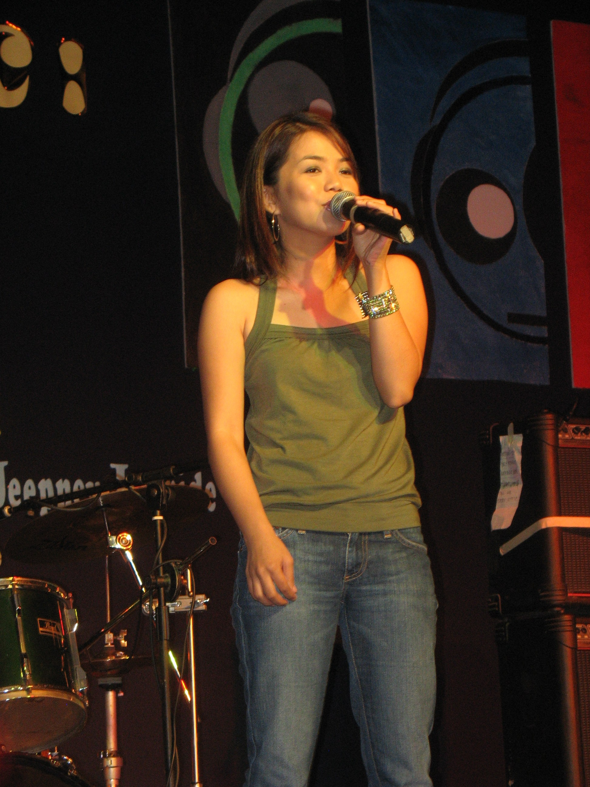 Juris Fernandez performing during a concert in Asia Pacific College